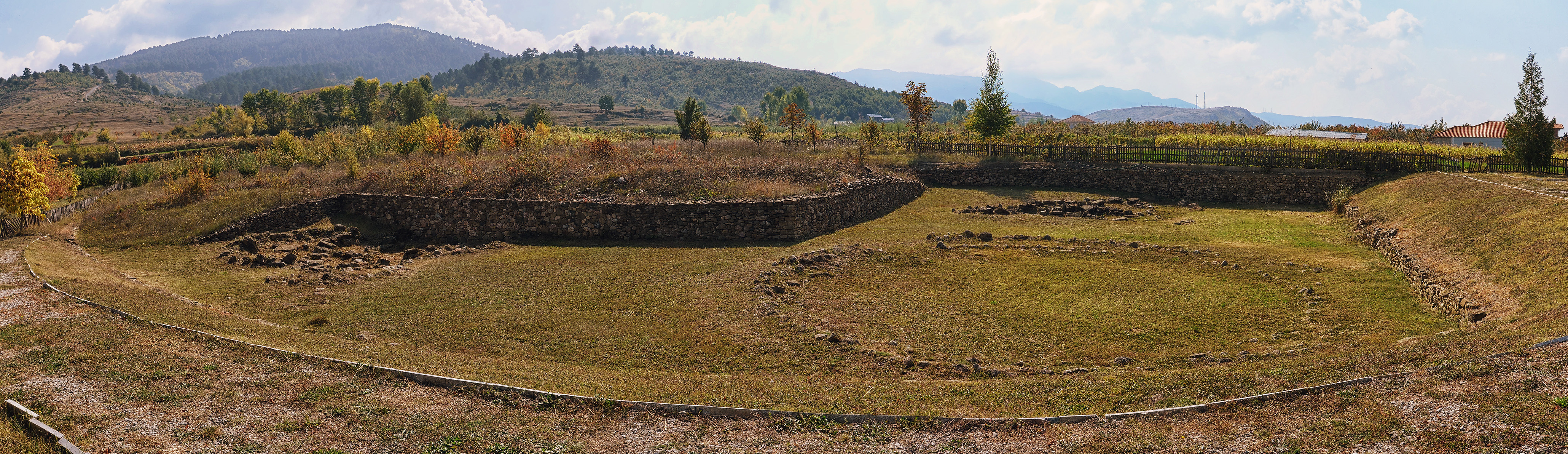 The panoramic view of the Kamenicë Tumulus, Albania